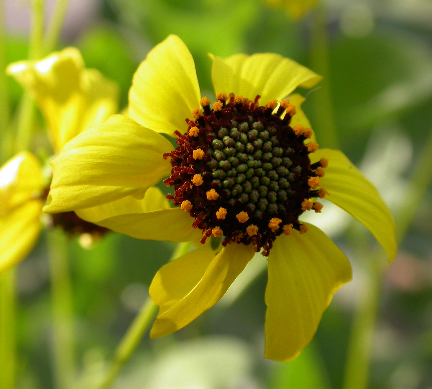 Encelia farinosa var. radians — flower head. BioTrek, at California State Polytechnic University, Pomona (Cal Poly Pomona), Southern California.